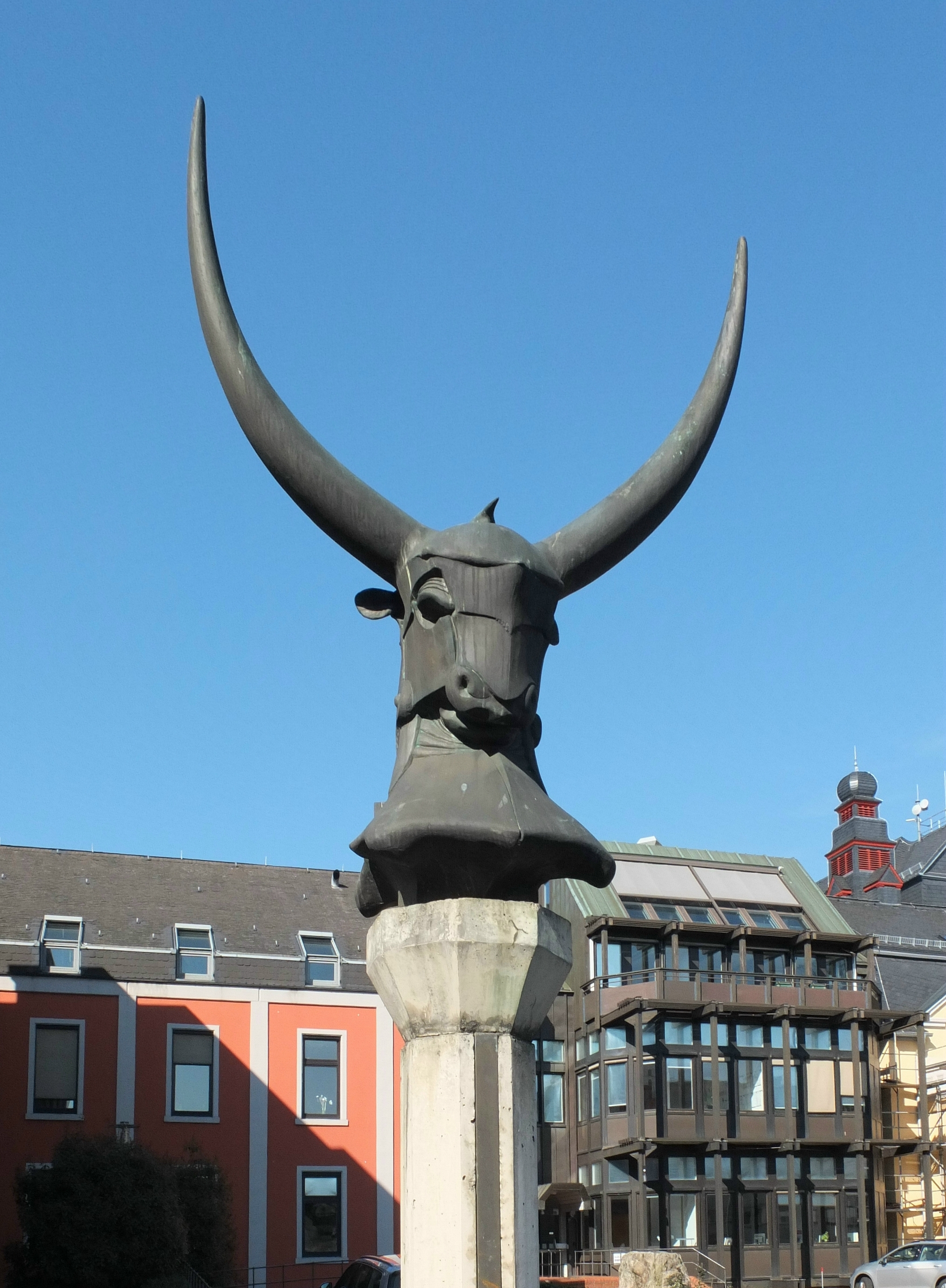 Minotaur bronze sculpture by Gernot Rumpf in Trier, Germany.